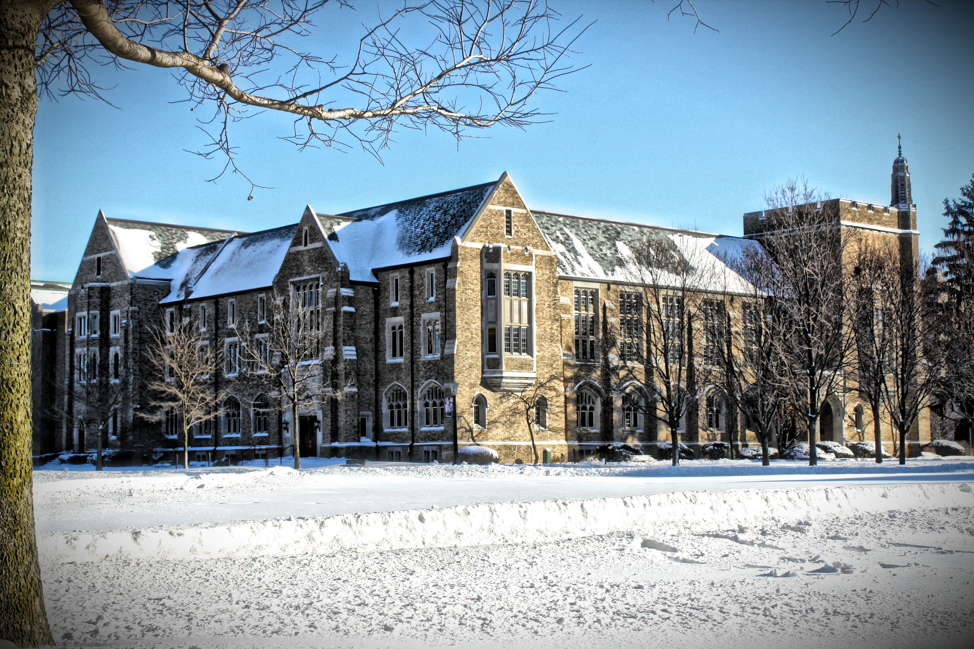 A wintry day at the Notre Dame Law School.